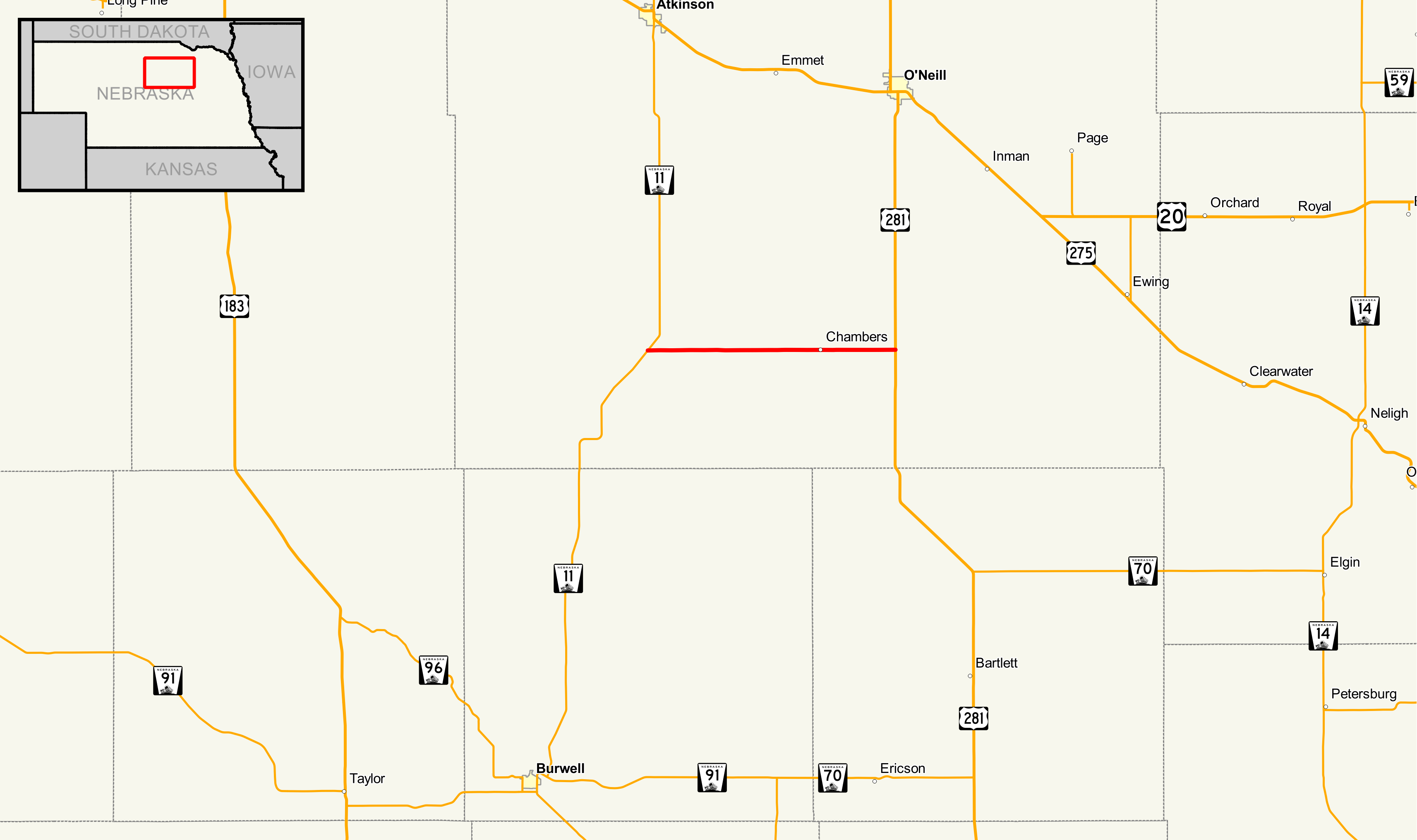 Map of Nebraska Highway 95 Data Sources: Nebraska Highways - - Dec 2016 Nebraska County Boundaries - - Dec 2016 Nebraska City Boundaries - - Dec 2016 This PNG graphic was created with QGIS